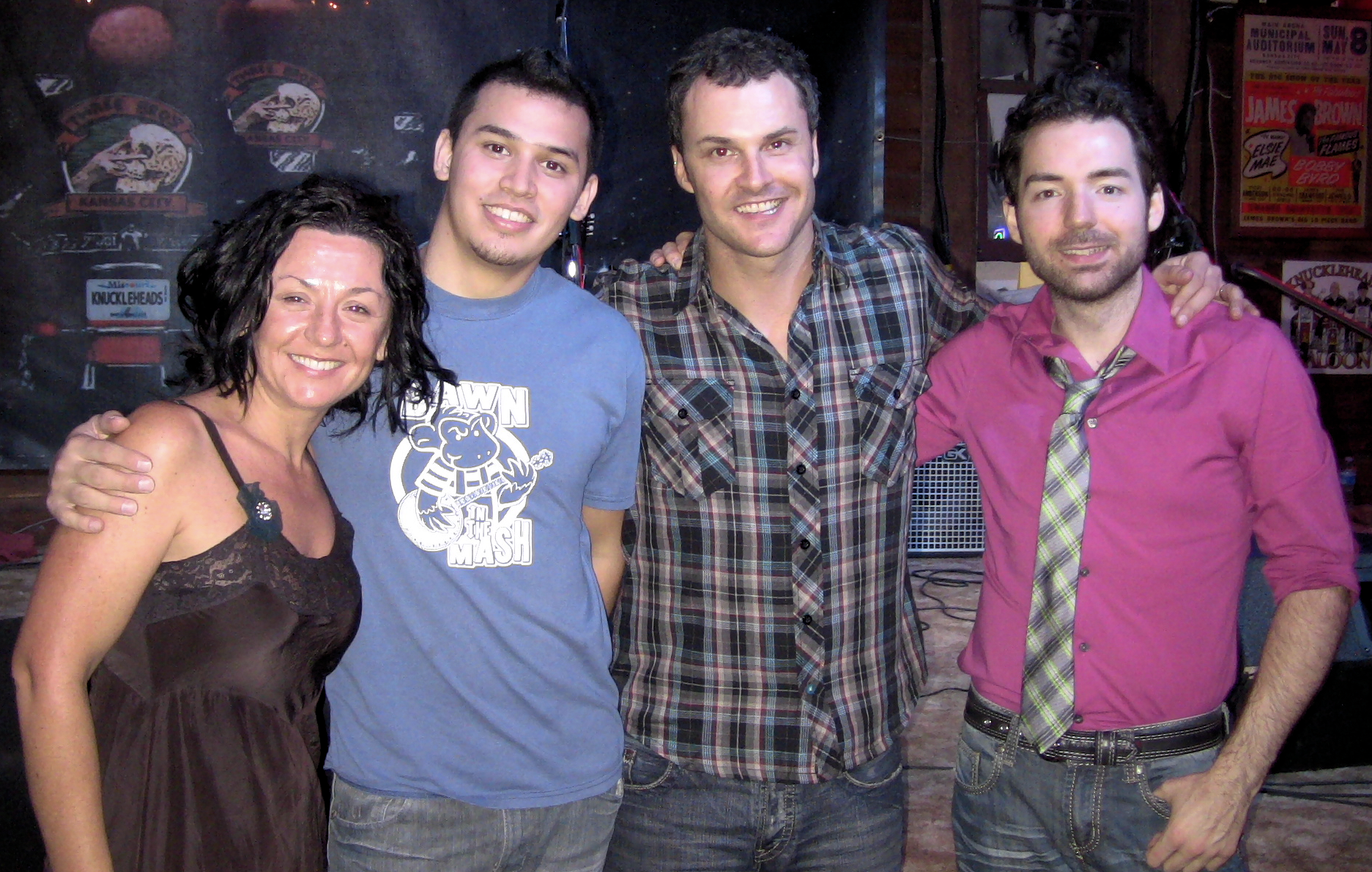 The Greencards after a concert at Knuckleheads Saloon in Kansas City, MO November 20, 2010